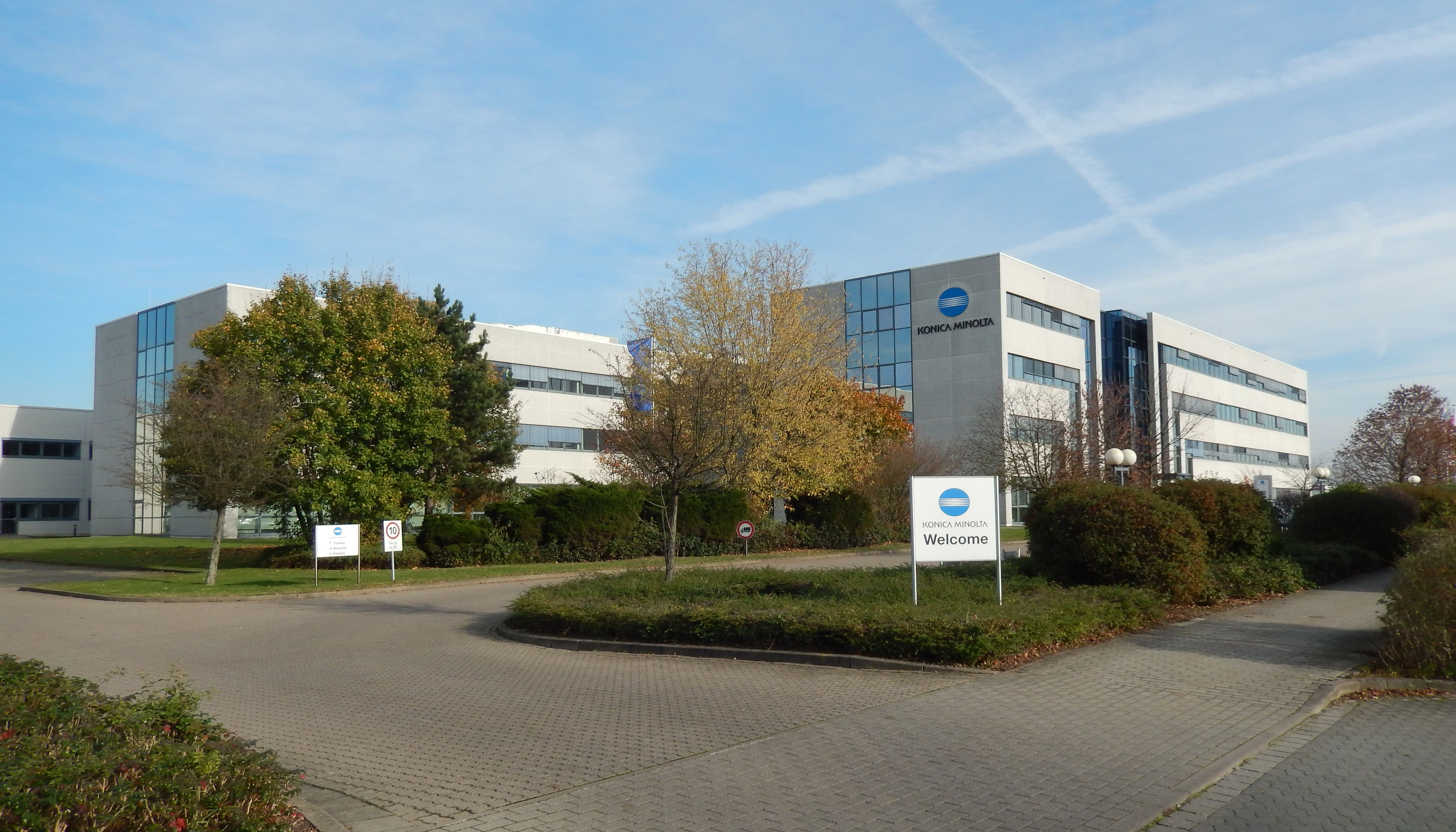 Konica Minolta Business Solutions Deutschland in Langenhagen near Hannover, Germany.